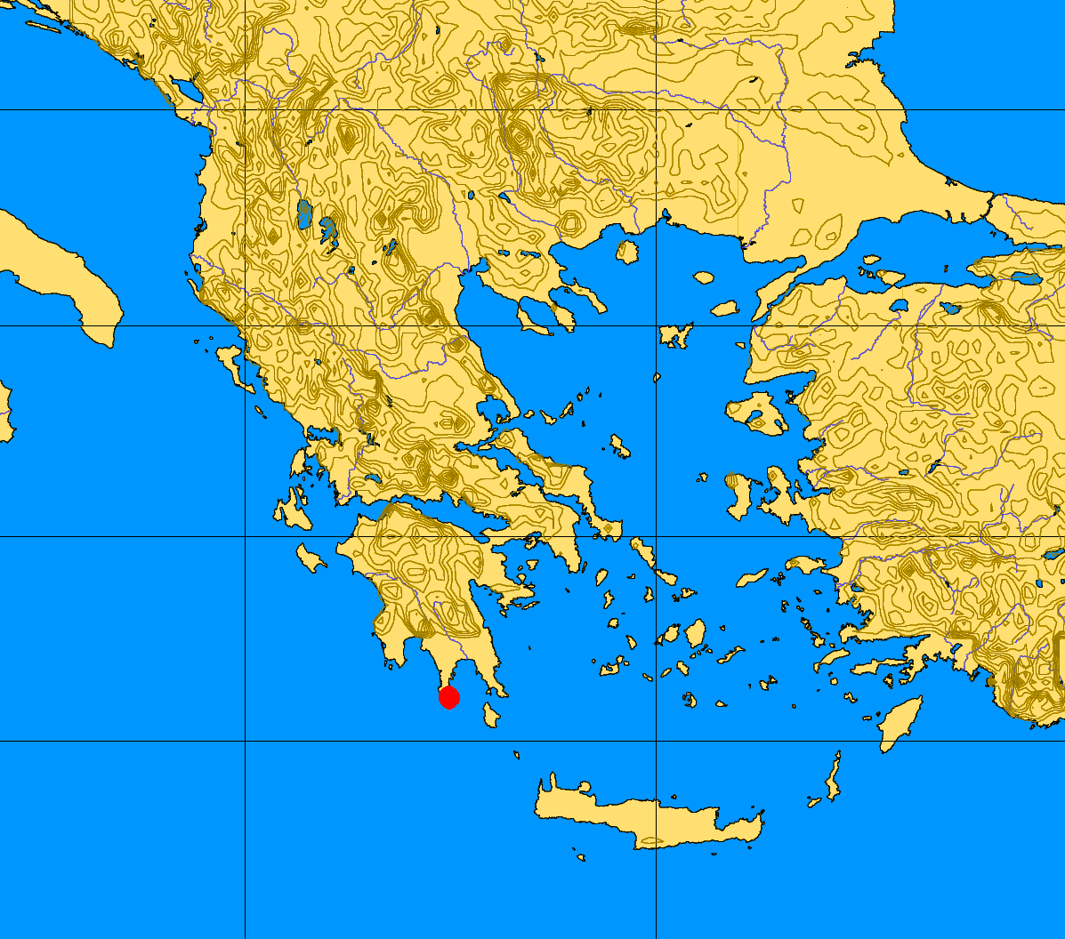 Greece map with Cape Matapan highlighted (the original Greece map used for it come from Commons :Image:Greece 34 43 17 30 blank map.png)